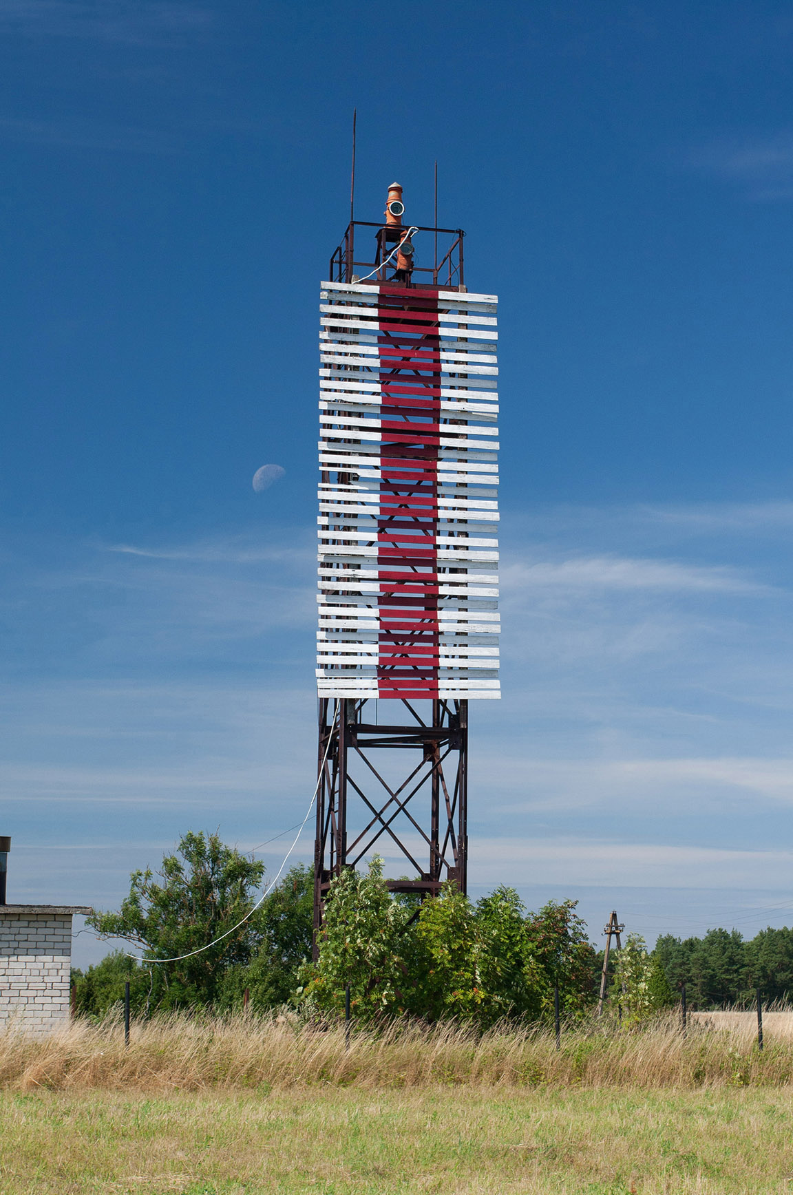 Kuivastu rear light beacon